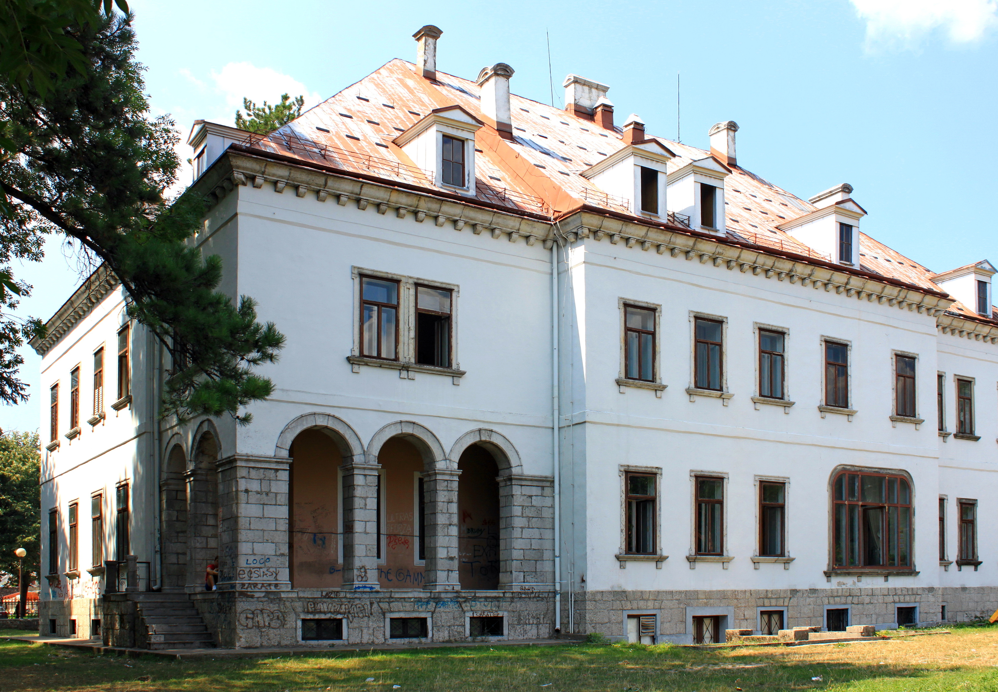 The former embassy of Austria-Hungary. Cetinje, Montenegro.